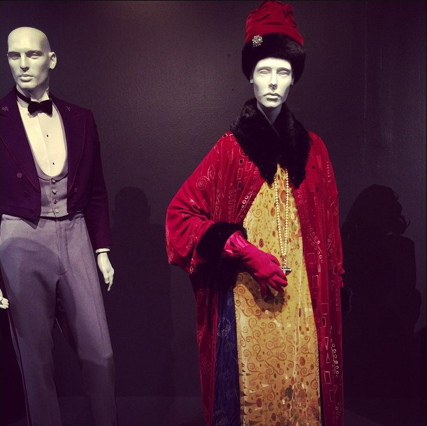 Tilda Swinton's costume from the film The Grand Budapest Hotel displayed at the exhibition 24th Annual Art of Motion Picture Costume Design at FIDM Museum, Los Angeles, CA.